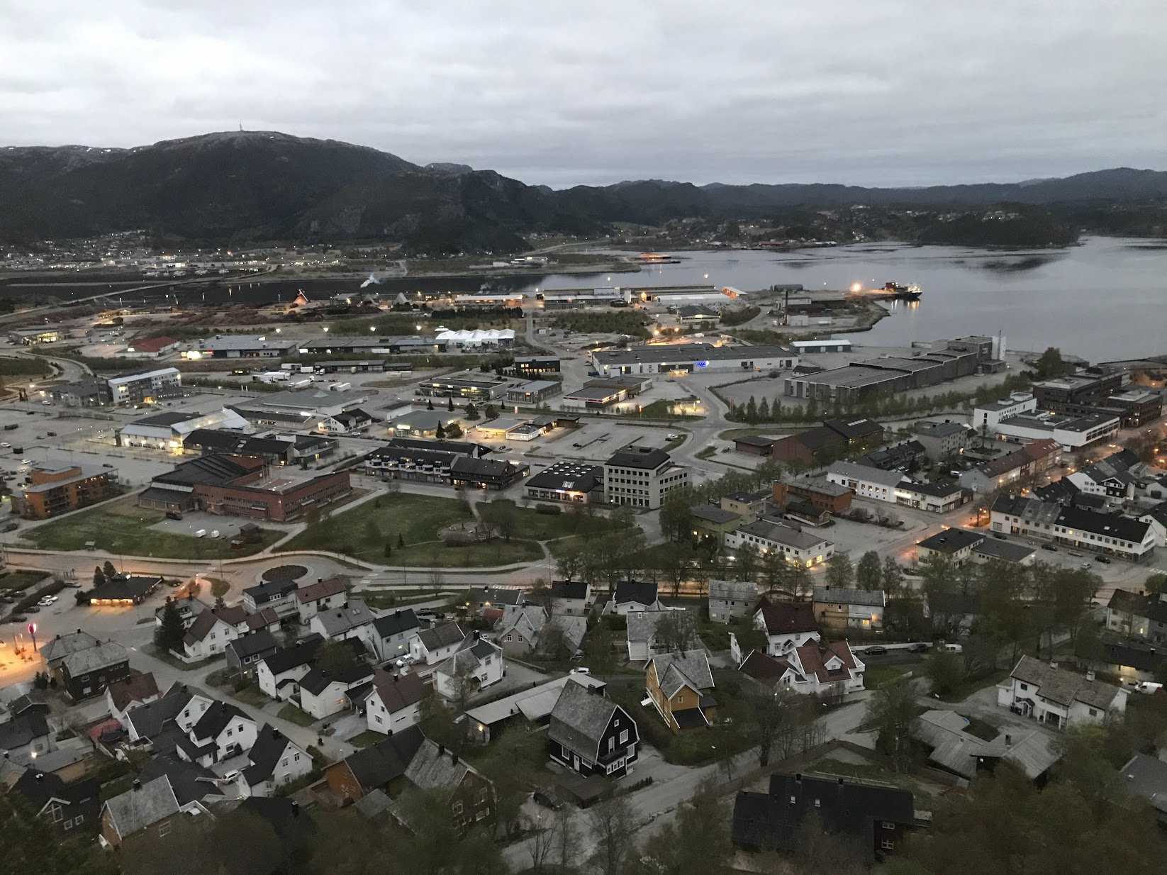 Namsos from klompen